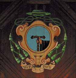 Painting on wood with the coat of arms of Vallombrosa congregation and its motto Disclipina pacis, in Monastery of Santa Umiltà at Faenza, Italy